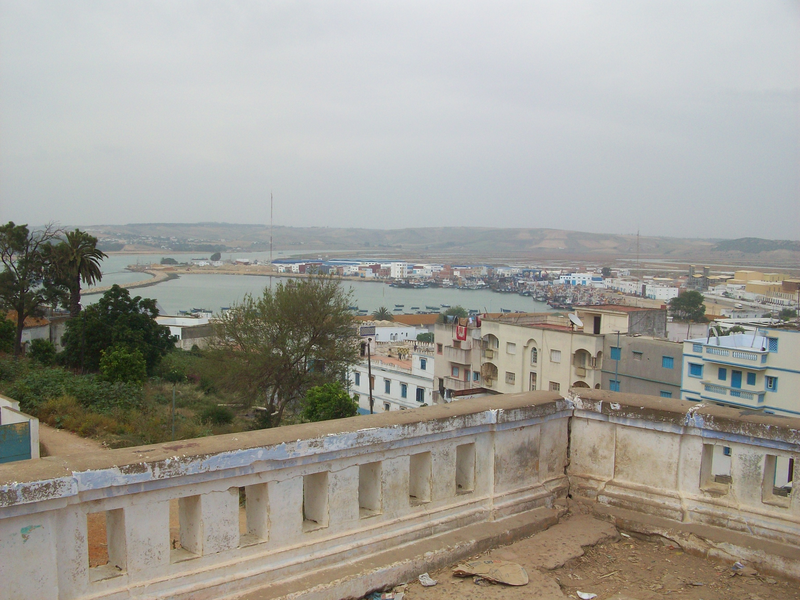 Harbor of Larache, Morocco